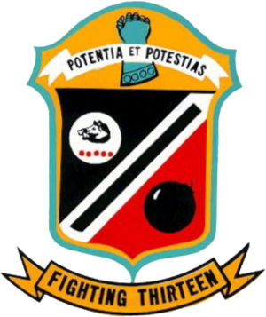 Emblem of the U.S. Navy Fighter Squadron 13 (VF-13) Night Cappers, active from 1948 to 1968.